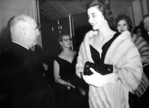 Madame Hope Somoza & Cardinal Francis Spellman at a reception in New York.